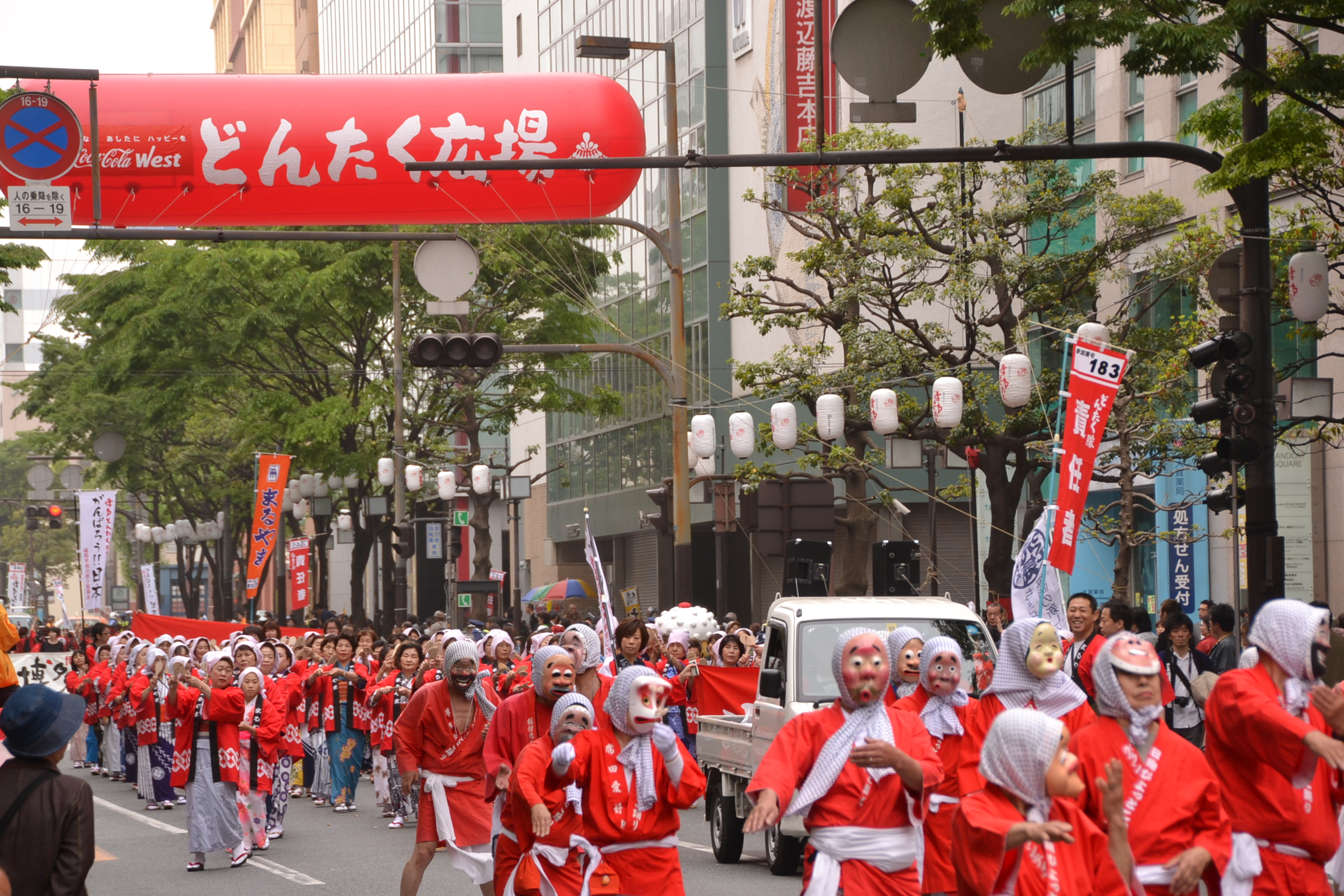 Hakata Dontaku Festival Parade 2011-05-04